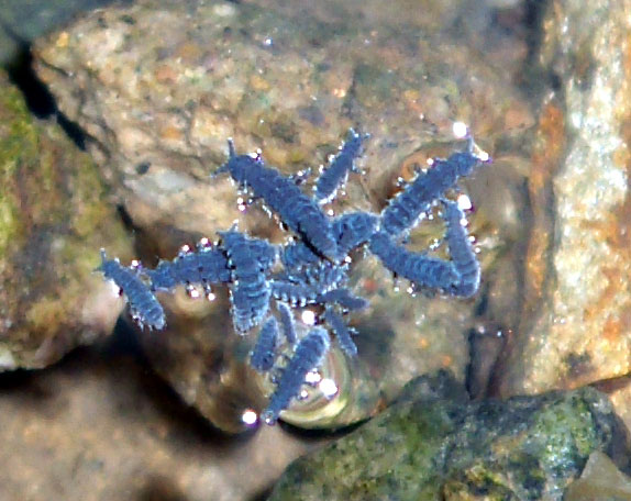 a littoral collembolan